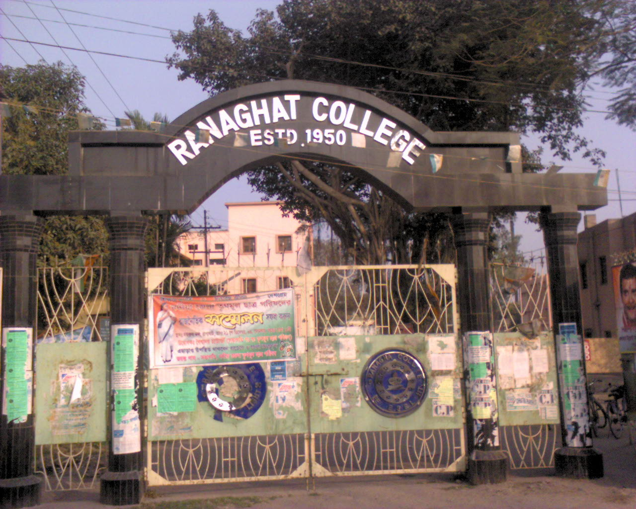 Ranaghat College Entrance, it has changed a lot